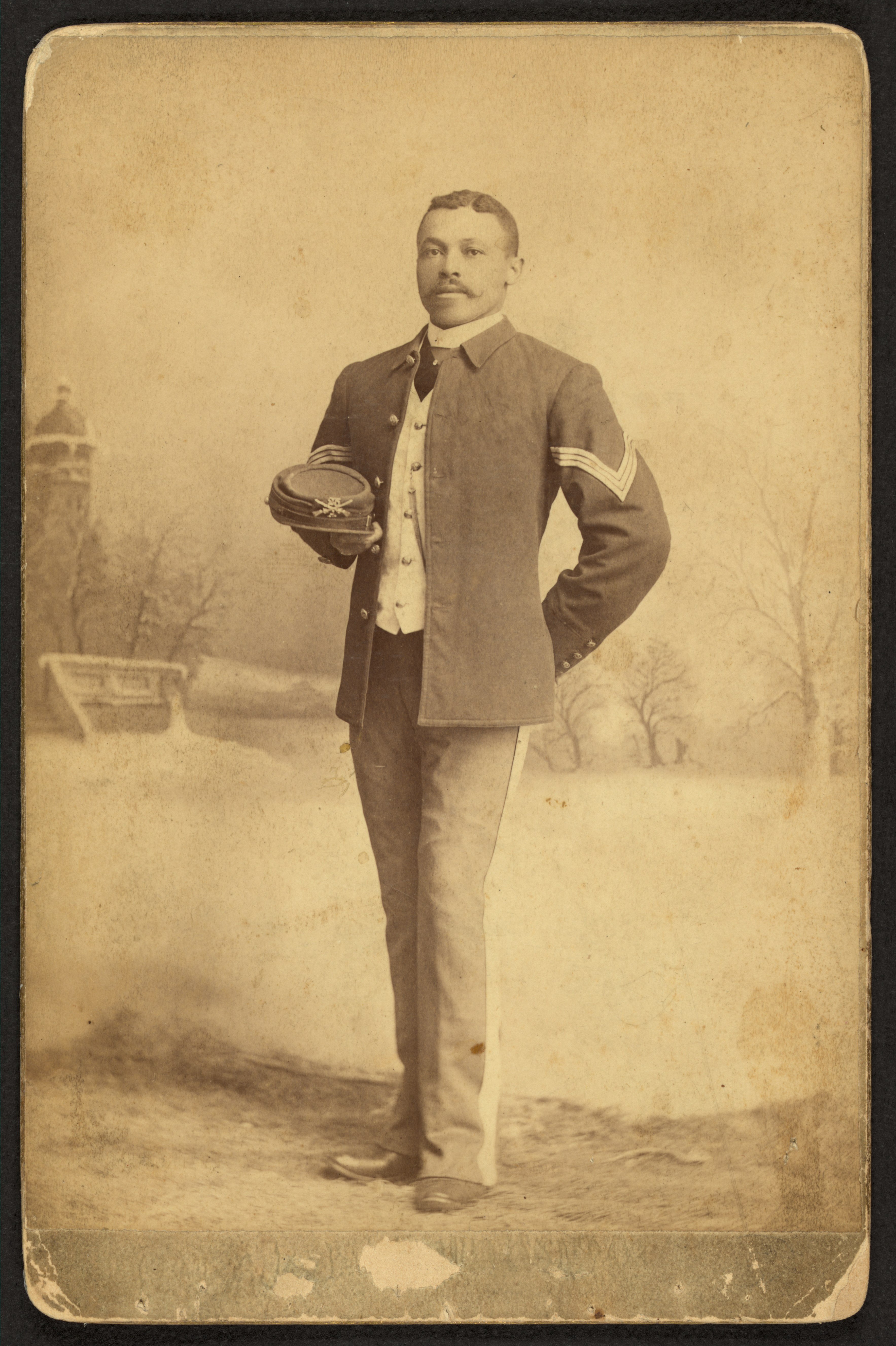 Title: Buffalo Soldier, 25th Infantry, Co.] / Goff, photographer, Fort Cust[e]r, Mont Abstract/medium: 1 photographic print on cabinet card ; 16.5 x 11 cm.